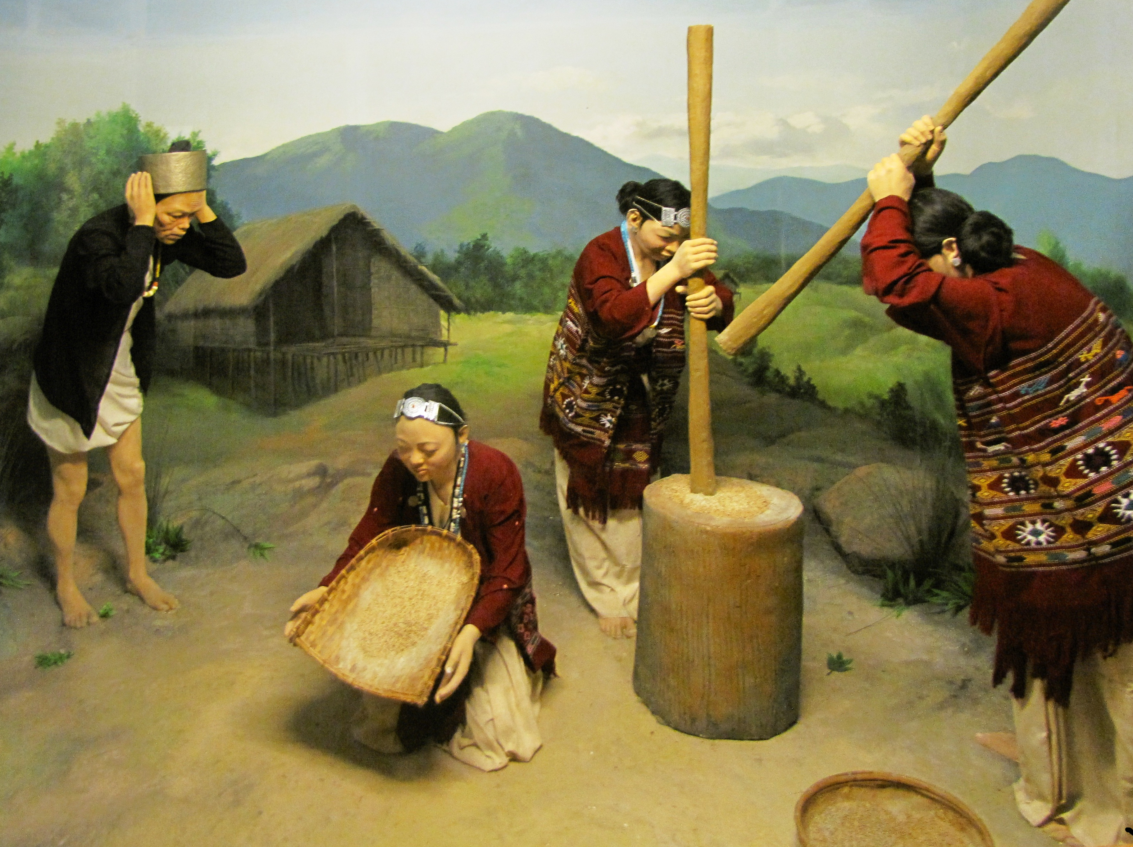 Diorama of Hruso people at Jawaharlal Nehru Museum, Itanagar, Arunachal Pradesh, India.